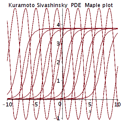 Kuramoto-Sivashinsky pde Maple plot